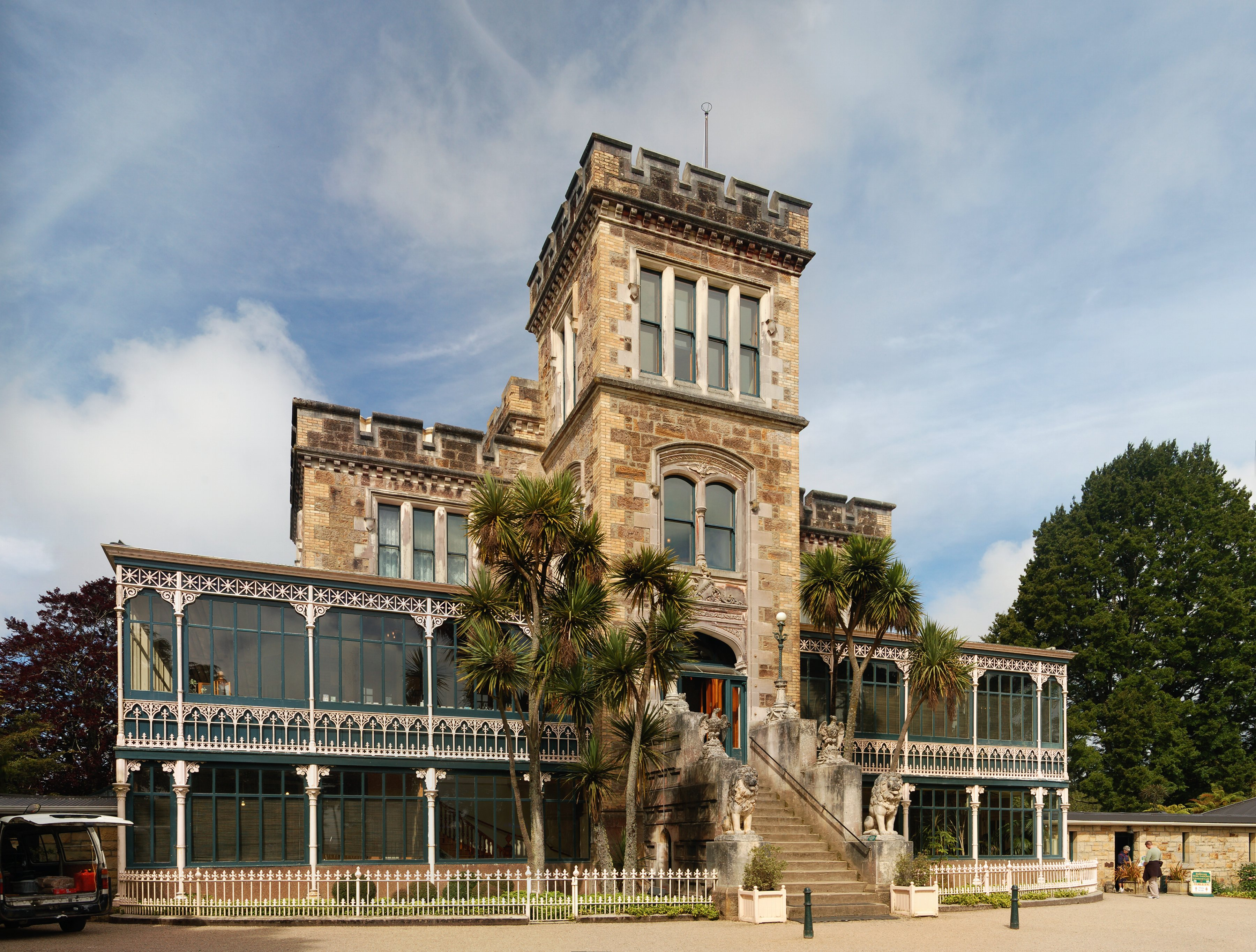 Larnach Castle, Dunedin, New Zealand 5×2 panorama created from a Nikon D50 with 18-55mm f/3.5-5.6, stitched with Hugin Higher resolution version and other licensing options available upon request.